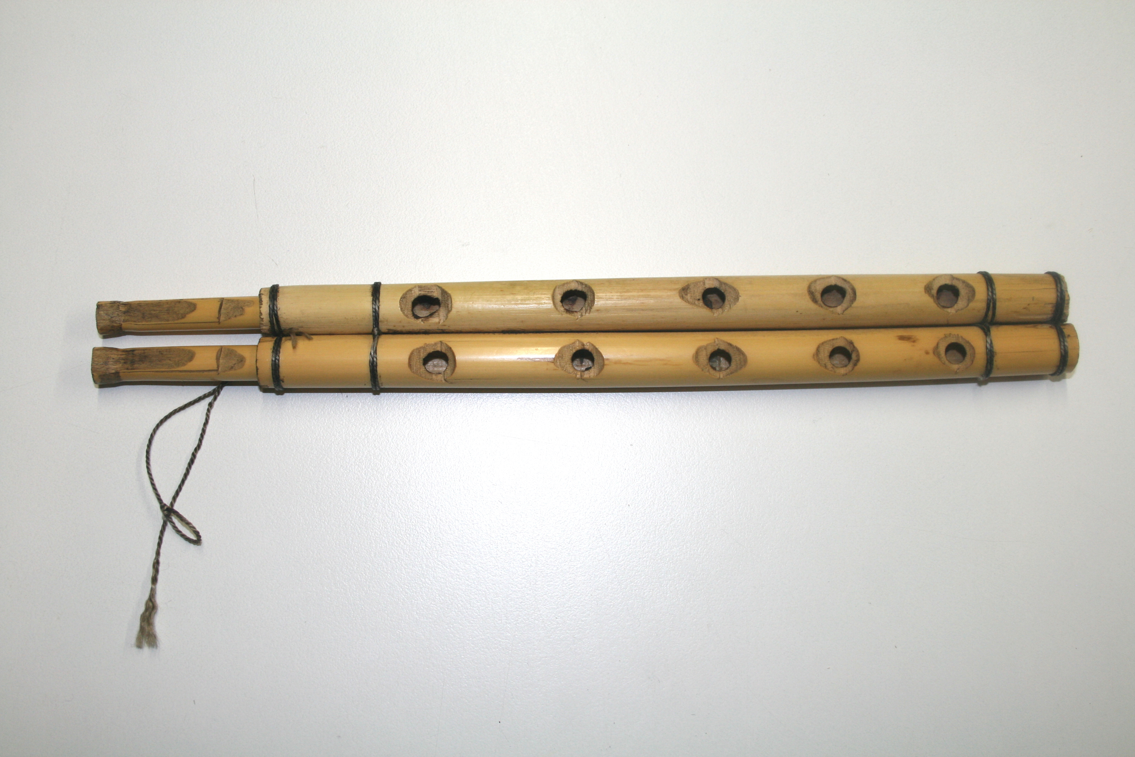 zummara. Musical instrument from Tunisia